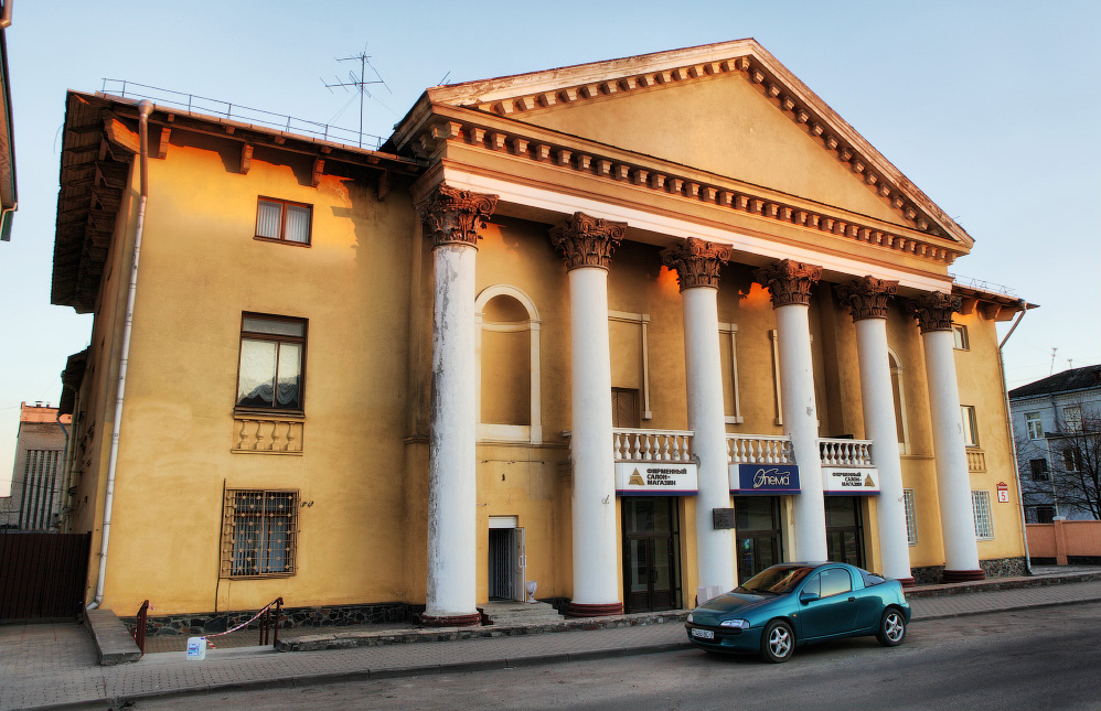 Elema fashion shop, Minsk, Belarus